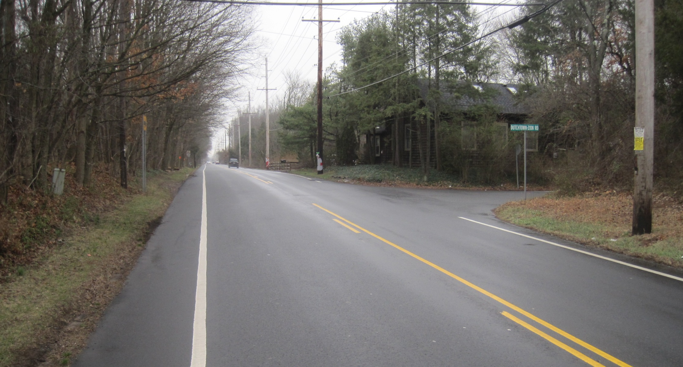 Photo of the unincorporated community of Dutchtown, New Jersey within Montgomery Township, Somerset County. Photo taken on southbound County Route 601 at Dutchtown Zion Road.